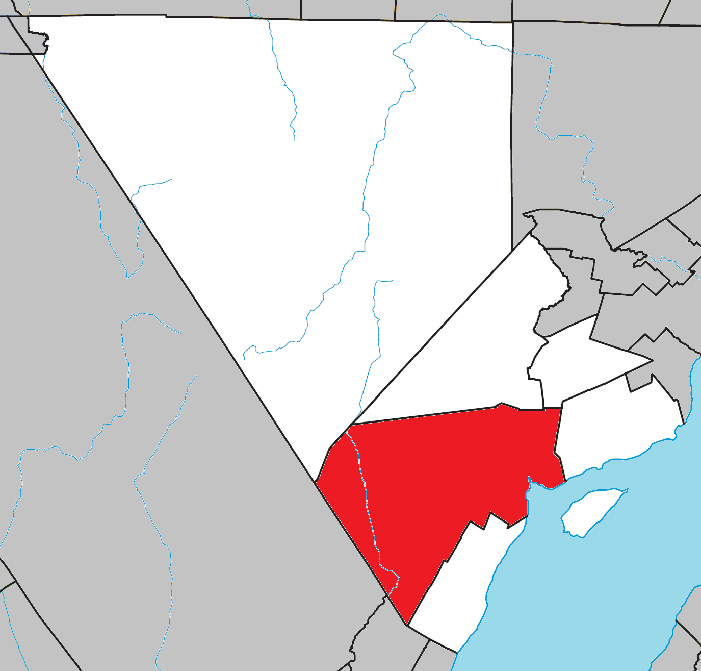 Location of Baie-Saint-Paul, Quebec within Charlevoix Regional County Municipality.